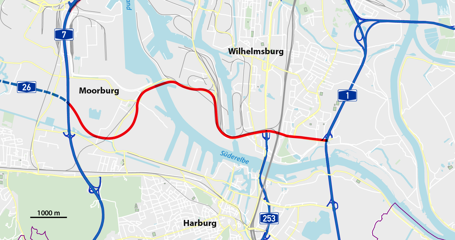 Karte der Hafenpassage in Hamburg This map may be incomplete, and may contain errors. Don't rely solely on it for navigation.